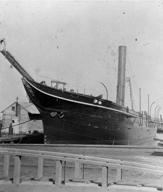 An Alert class gunboat fitting out at the Chester, Pennsylvania shipyard of John Roach & Sons, circa 1874-75